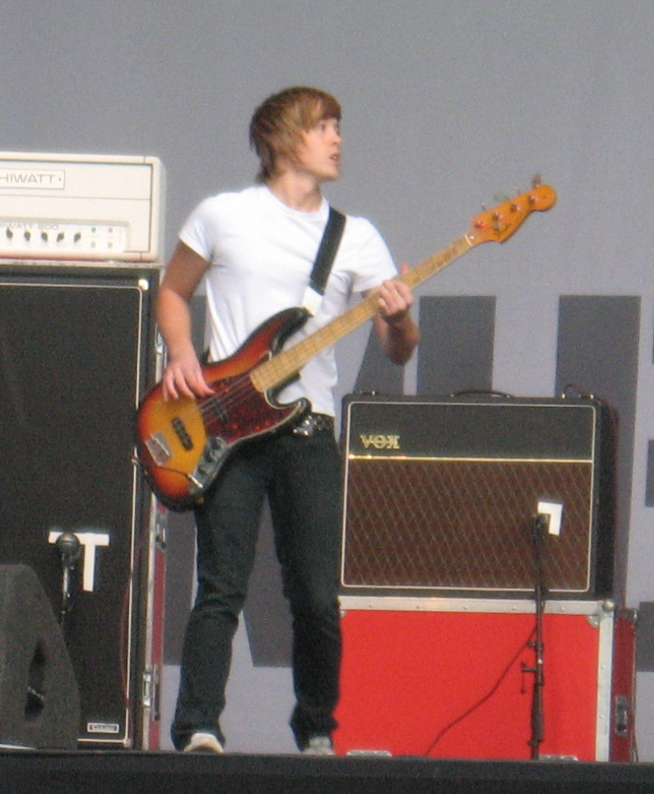 Air Traffic, Jim Maddock (bass), Parkpop 2007, Den Haag